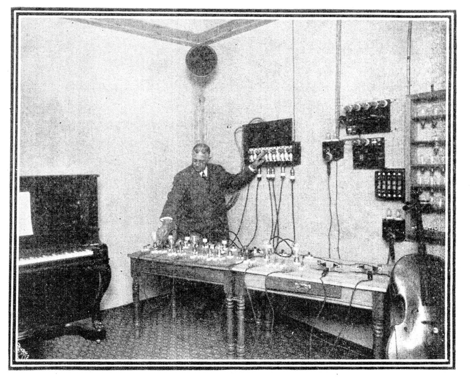 Photograph included in the article "Increasing the Revenue Producing Efficiency of a Plant" by Stanley R. Edwards, from page 22 of the October 11, 1913 issue of Telephony magazine. Original caption was "Apparatus for Sending First-hand Vocal and Orchestra Music". Pictured is inventor John J. Comer.